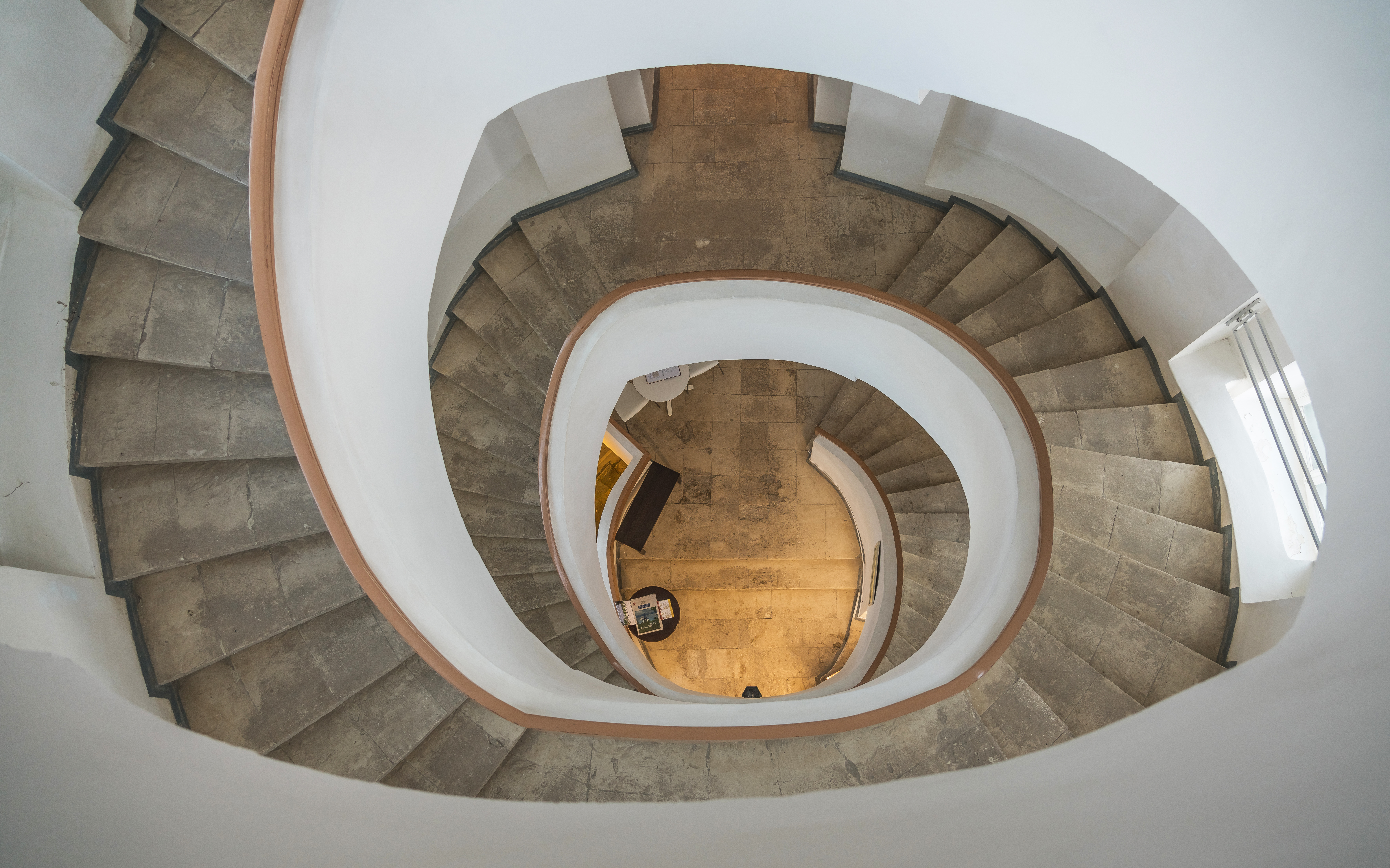 Stairwell of the Water Tower in Vladimir, Russia